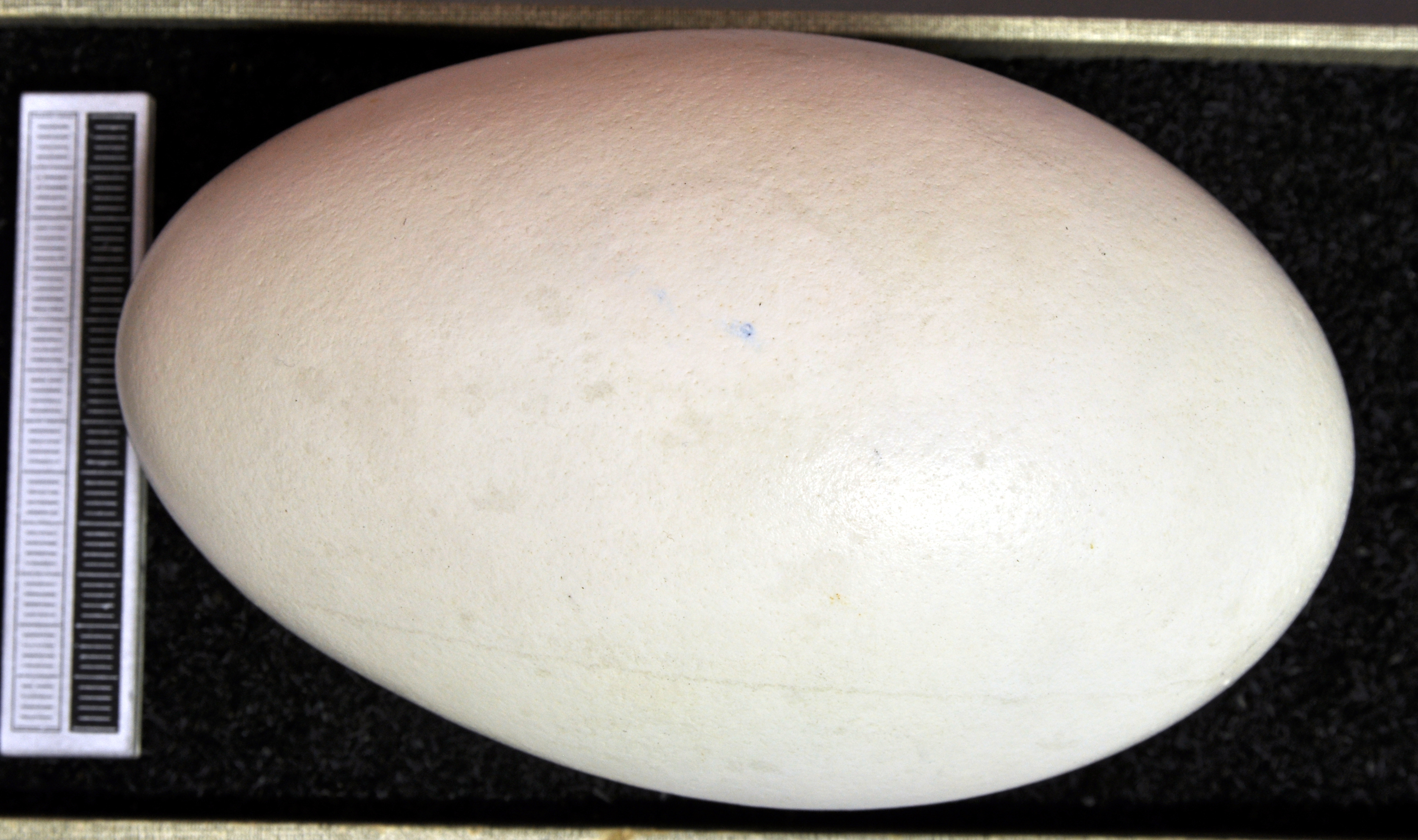 Andean condor Vultur gryphus , egg, Coll. Museum Wiesbaden